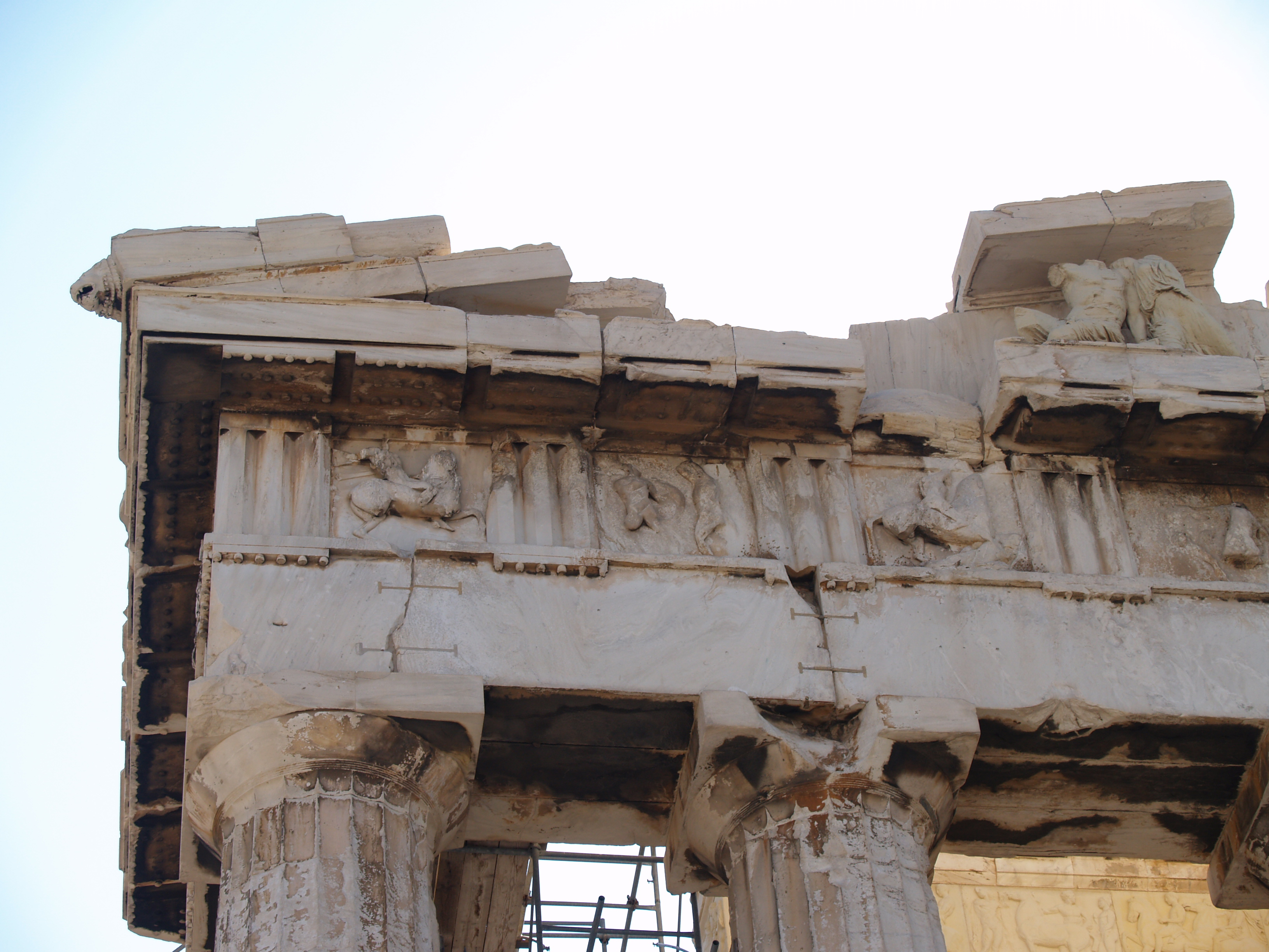 Ancient Freizes at NW corner of Parthenon. Metopes I to IV are visible, above on the pediment, Cecrops and Pandrose